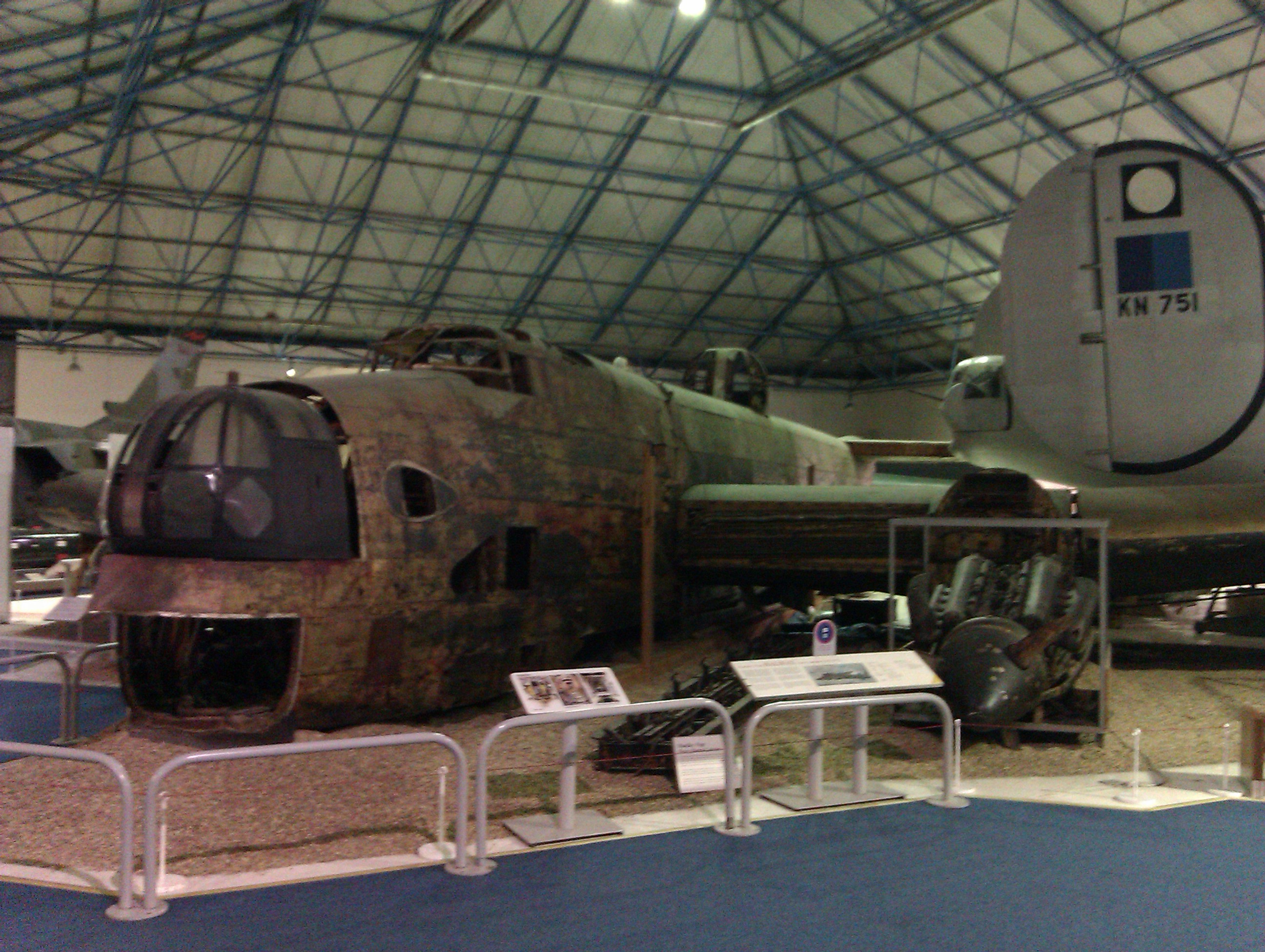 The partially restored remains of Halifax W1048, as displayed at the RAF Museum in Hendon.